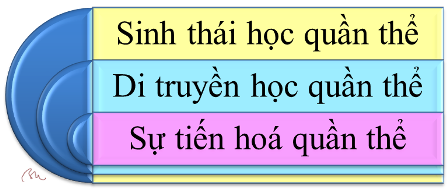 The main content of population biology.